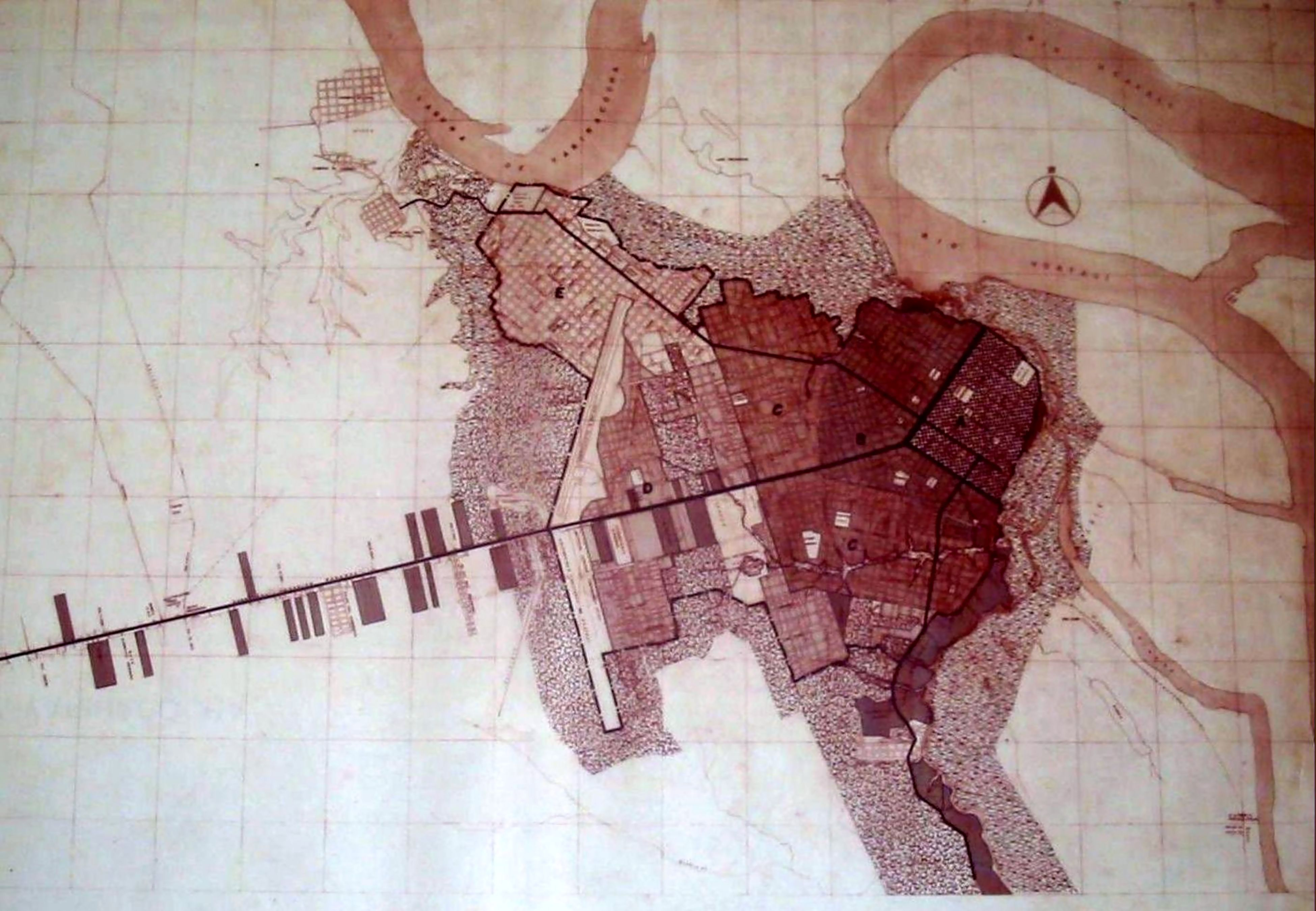 Map of the city of Pucallpa developed in 2000.